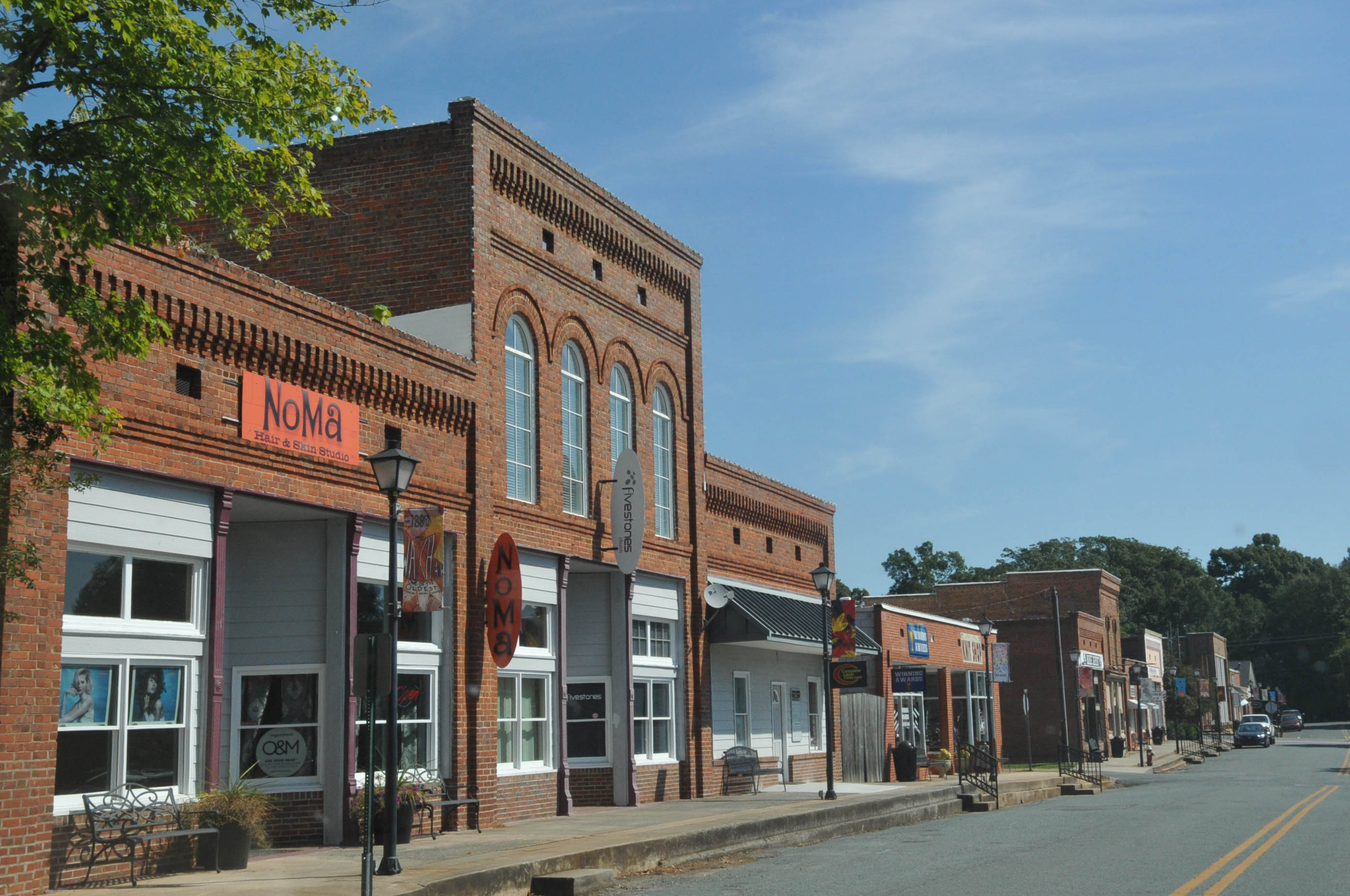 EARLY 20TH CENTURY COMMERCIAL AND RESIDENTIAL BUILDINGS IN NUMEROUS STYLES INCLUDING VICTORIAN, QUEEN ANNE, BUN GALOW/CRAFTSMAN ET AL. - ONE OF THE TWO MAIN STREETS WITH THE RAILROAD RUNNING BETWEEN THE TWO